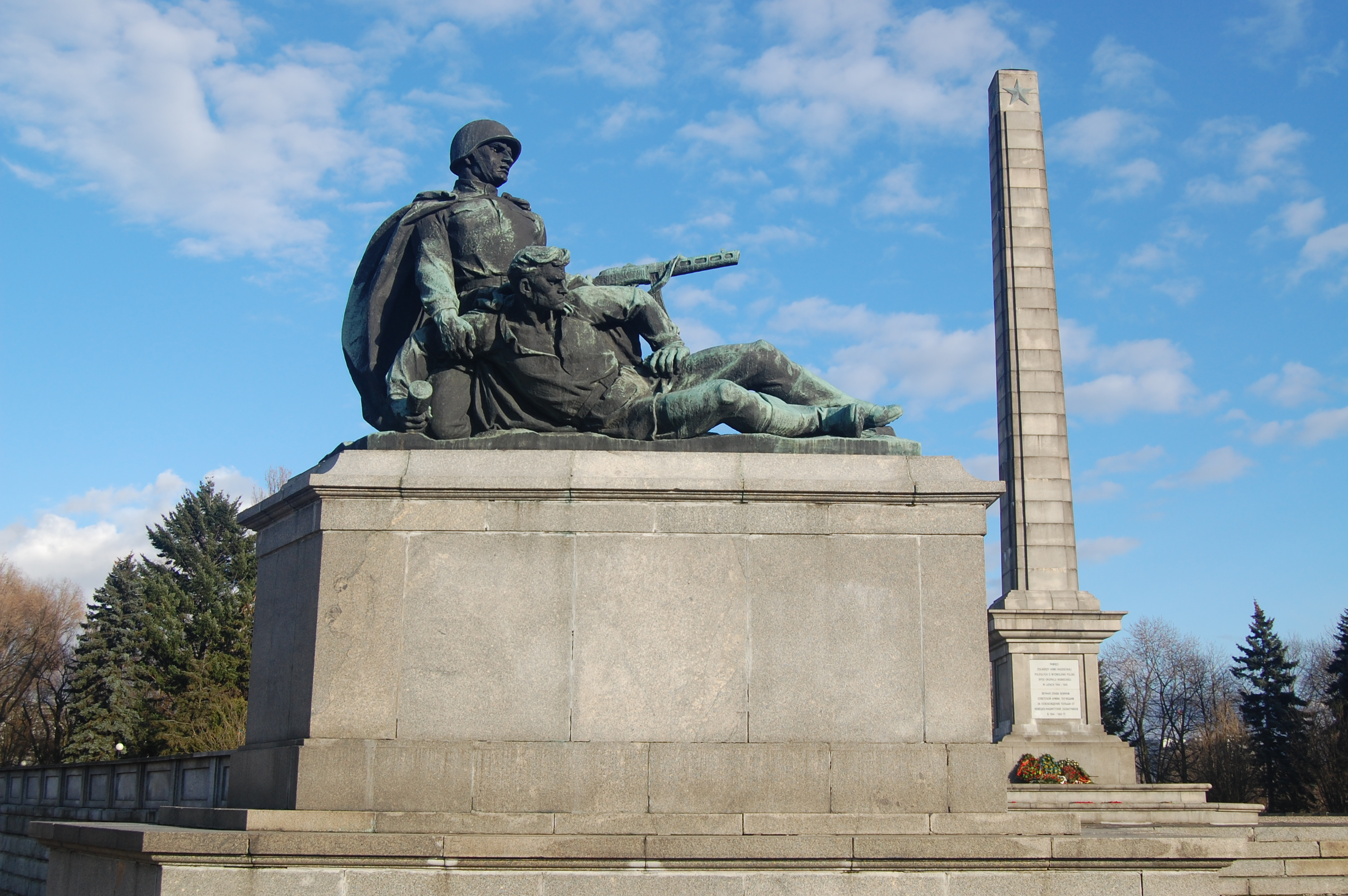 Monument in Soviet soldiers cementry in Warsaw, Poland.